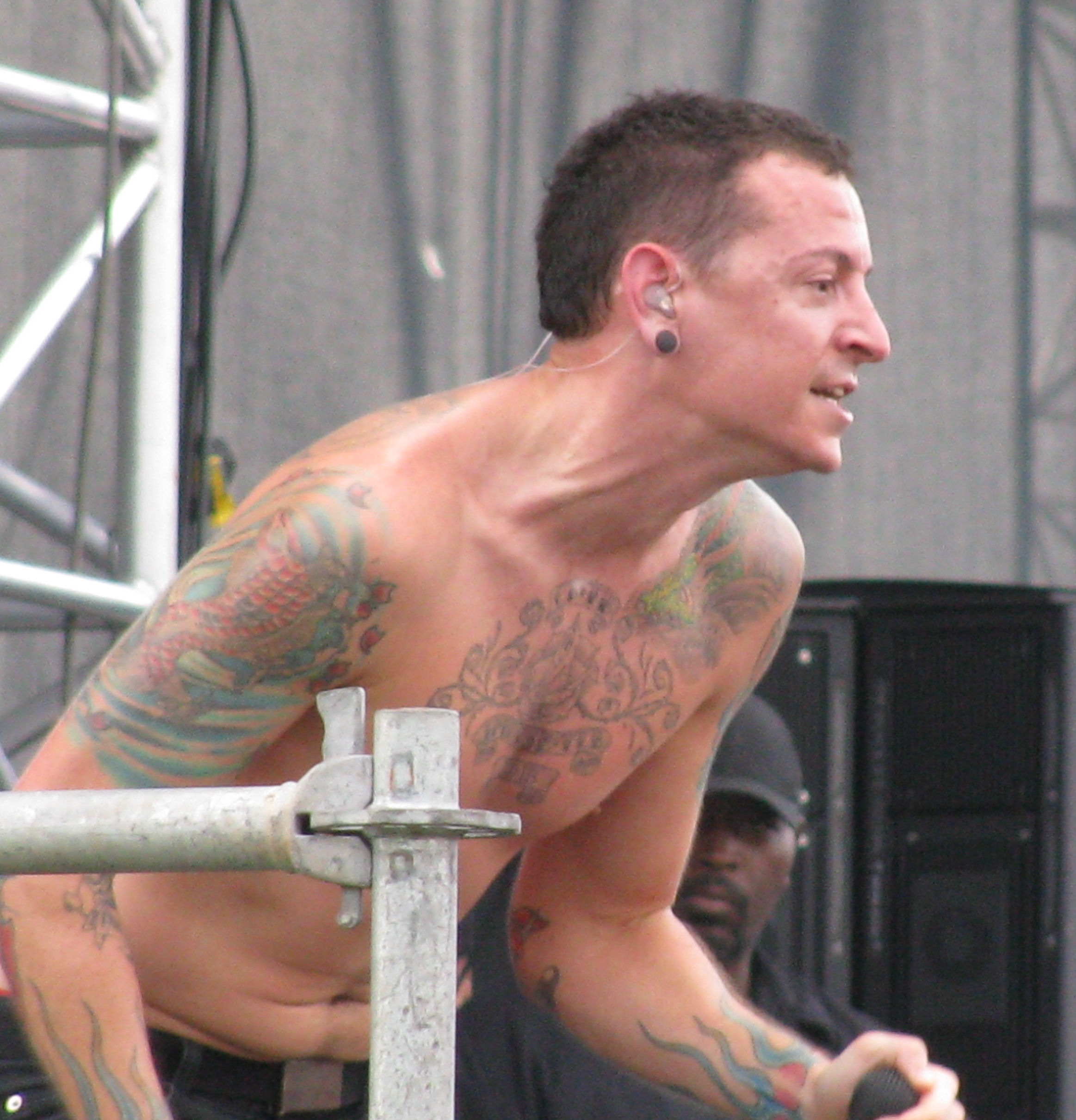 Chester Bennington from Linkin Park performing at Sonisphere Festival in Kirjurinluoto, Pori, Finland.